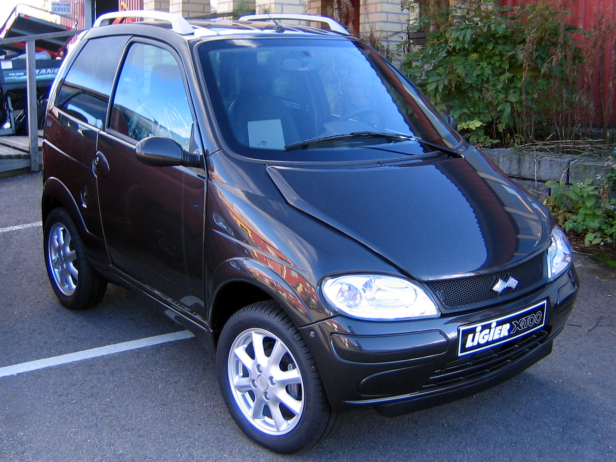 Ligier X-Too (Titanium Edition), a French made microcar (moped 45 km / h).